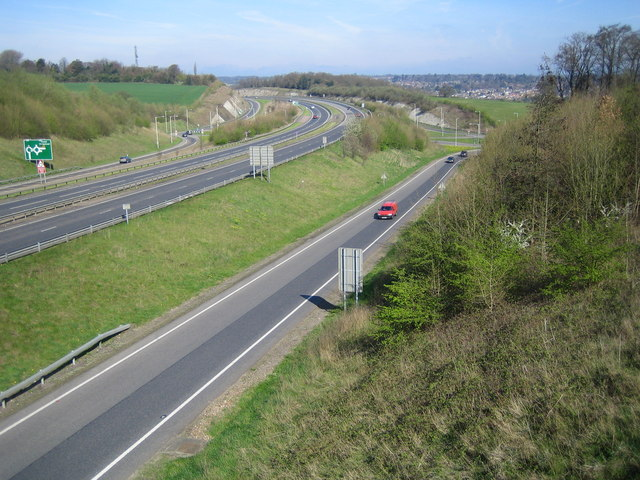 A41 Langley Bypass – Viewed from the Featherbed Lane overbridge looking towards the junction with the spur road to Hemel Hempstead, the bypass was built in 1993.